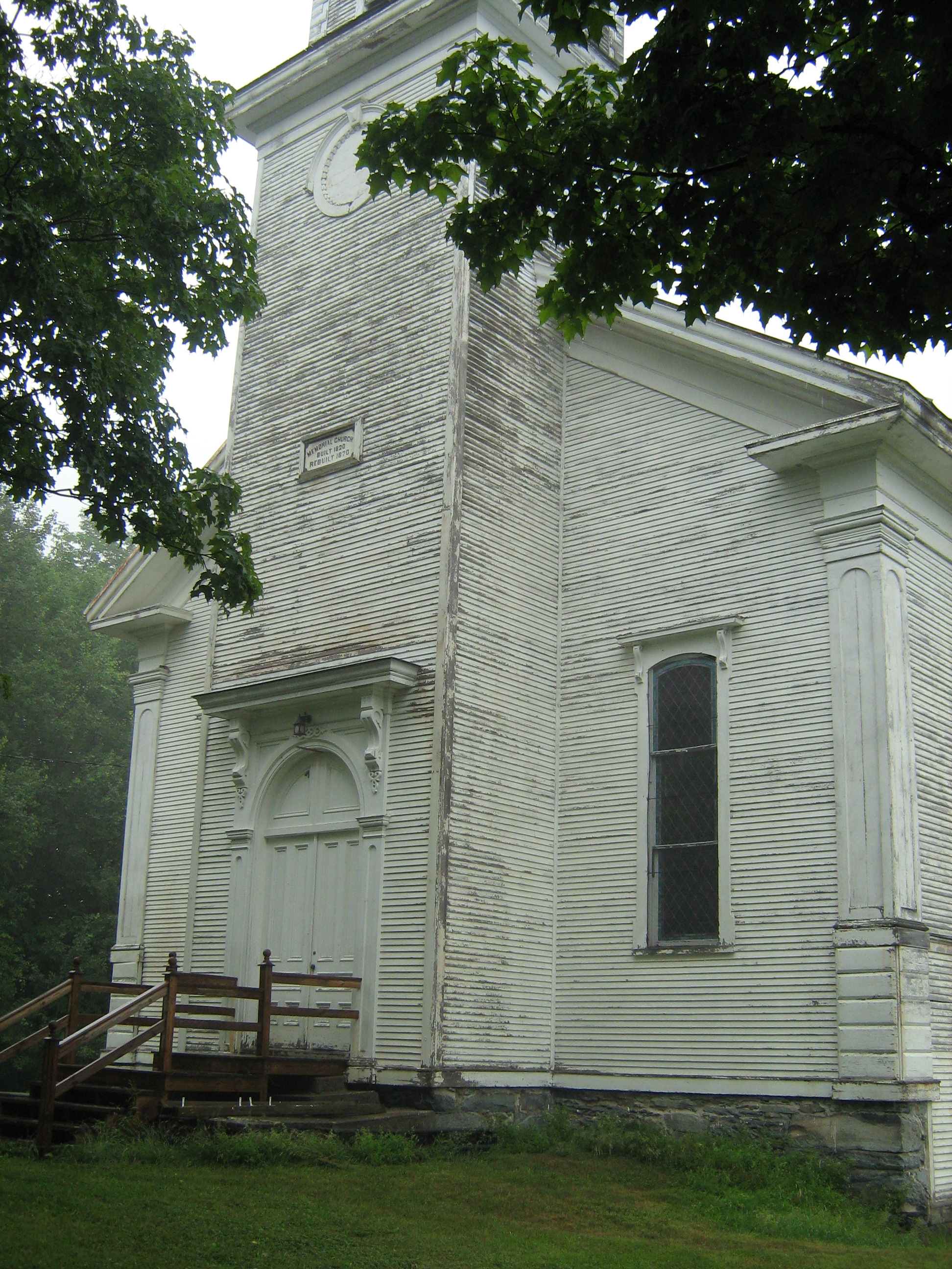 Ancient church in need of repair